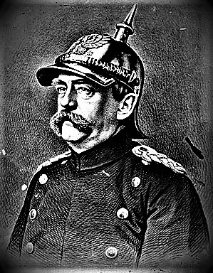 Otto von Bismark, responsible for uniting the German states in the mid 19th century